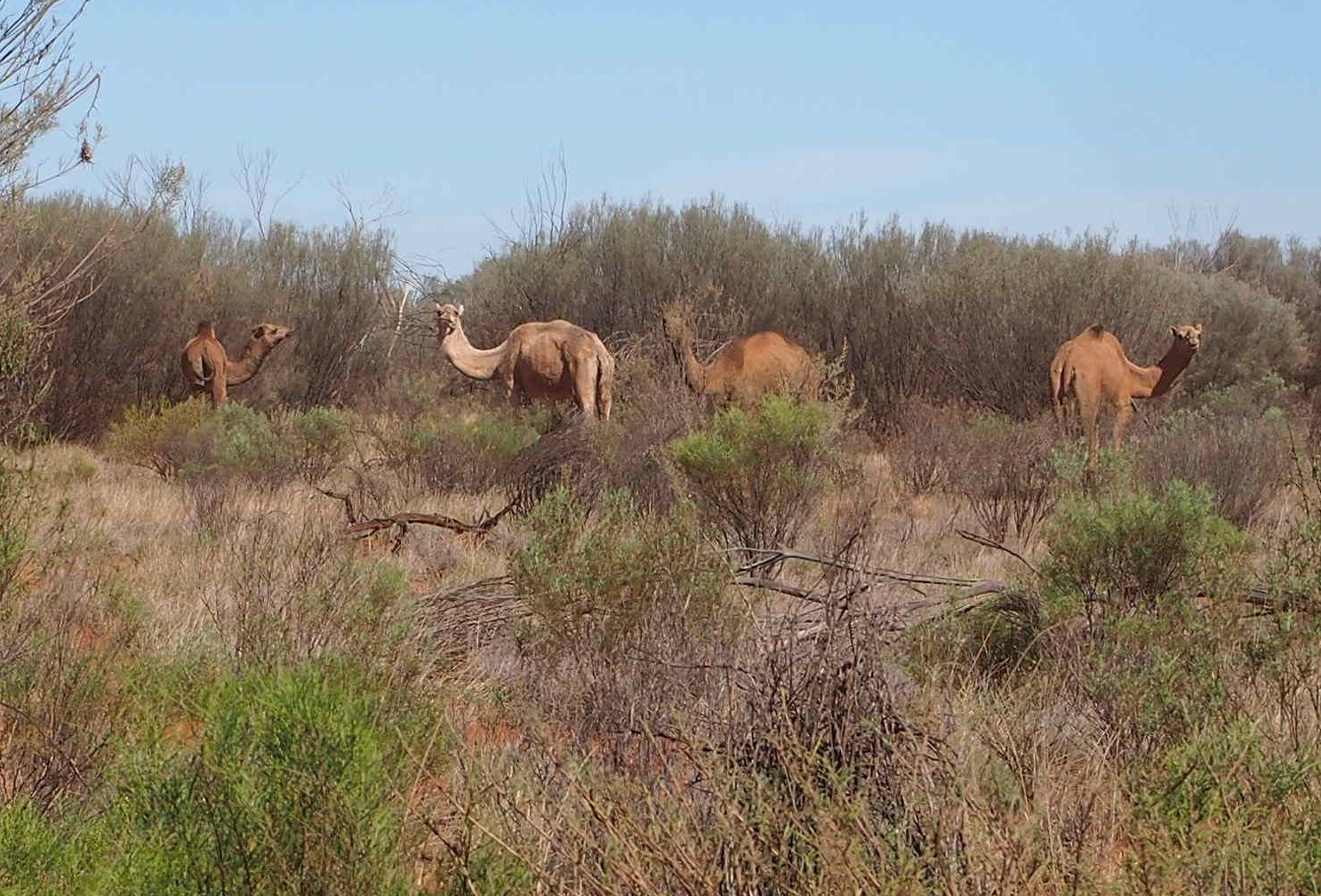 Feral camels, Central Australia